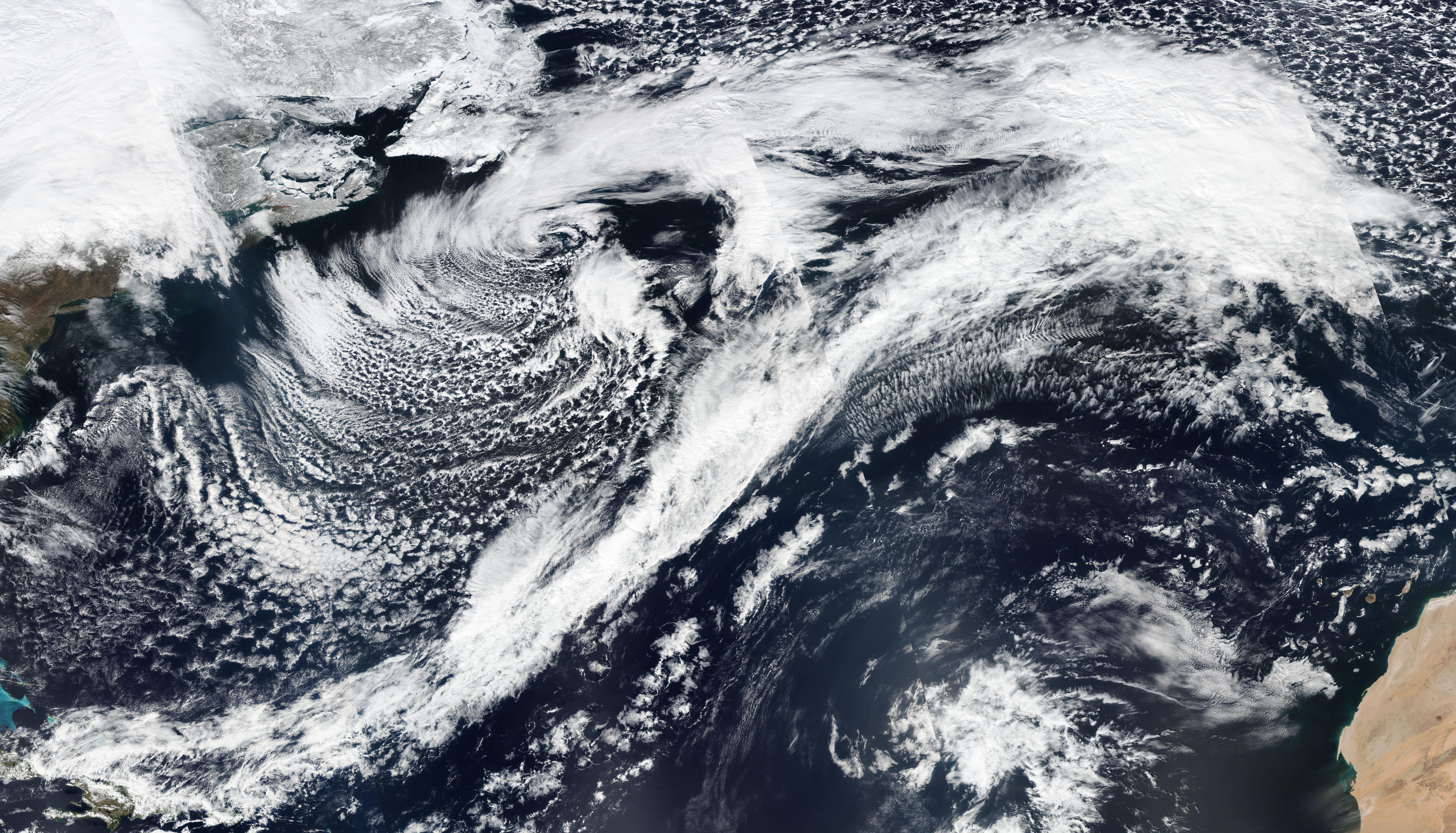 Storm Myriam, of the 2019-20 European windstorm season, above the Atlantic Ocean on 2 March 2020.